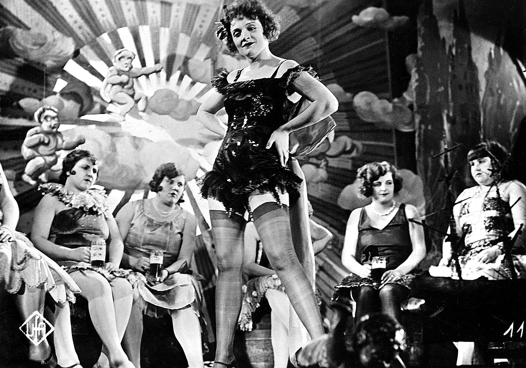 Promotional photo of Marlene Dietrich with chorines in the film The Blue Angel